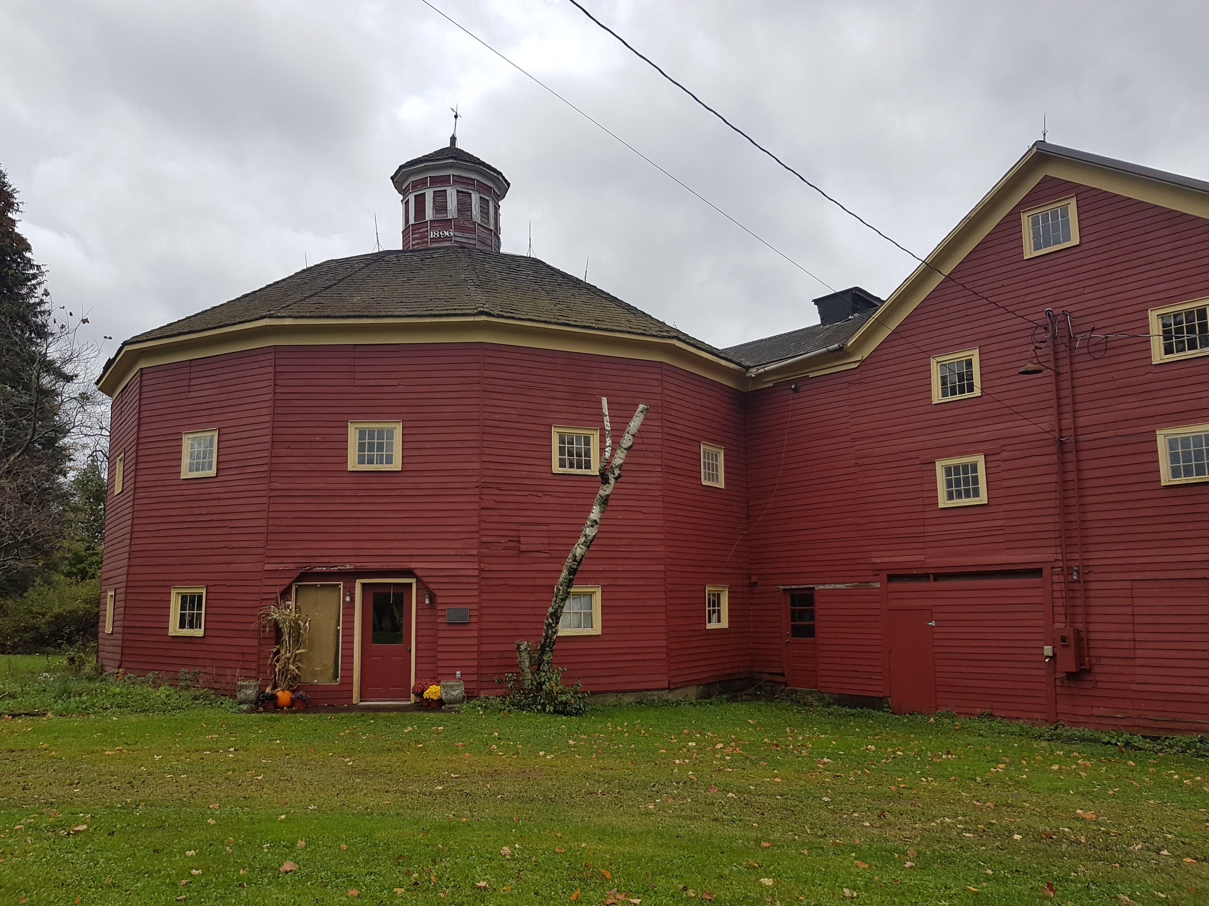 This is a photo of the historic Parker 13 Sided Barn.